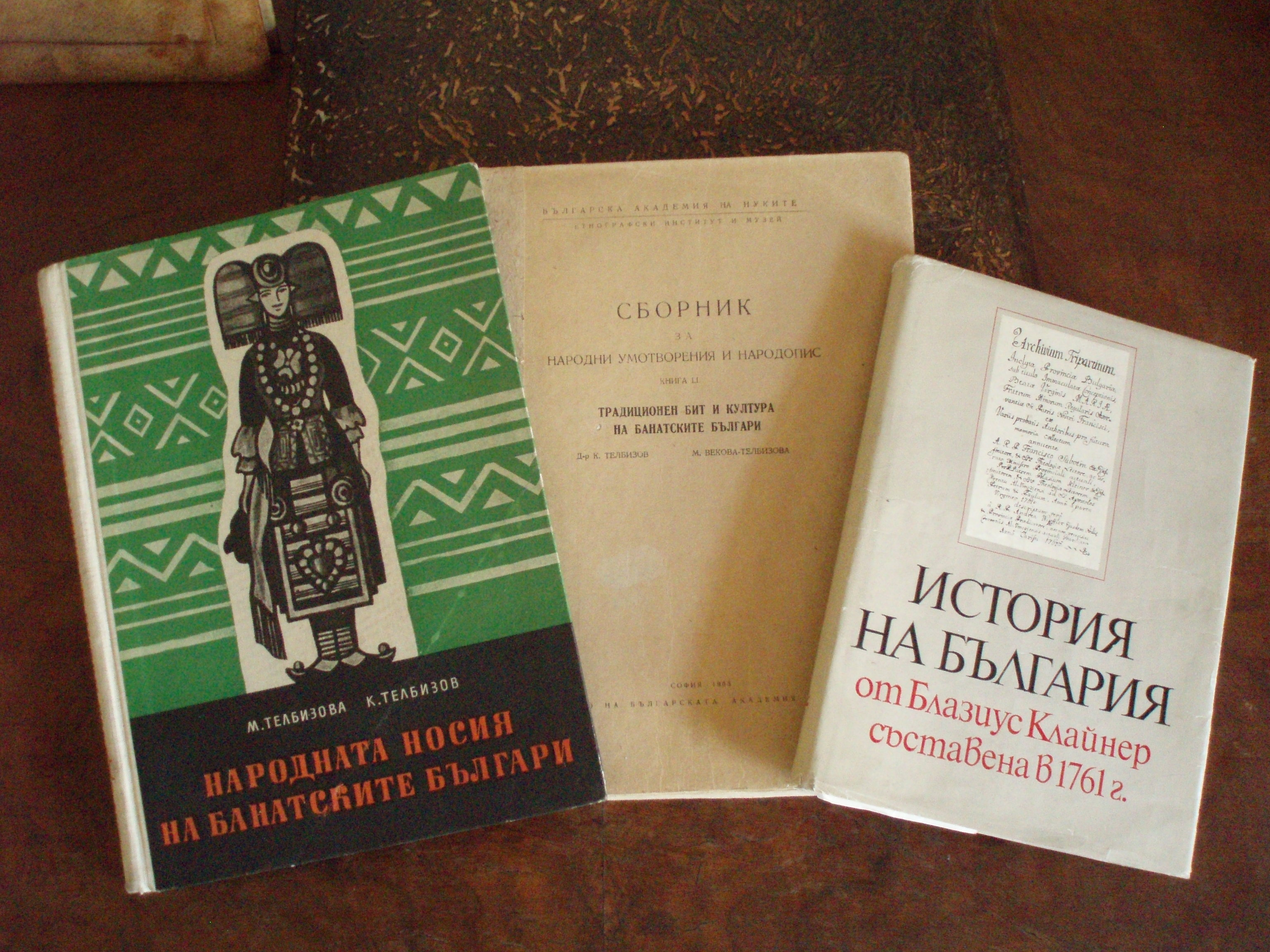 tree main books of Prof. Karol Telbizov